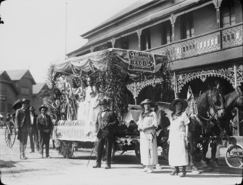 St. Patrick's Day float in Brisbane, ca. 1927. The float belongs to the St. James female branch of the H.A.C.B.S. Coorparoo. H.A.C.B.S. is an acronym for the Hibernian Australasian Catholic Benefit Society.